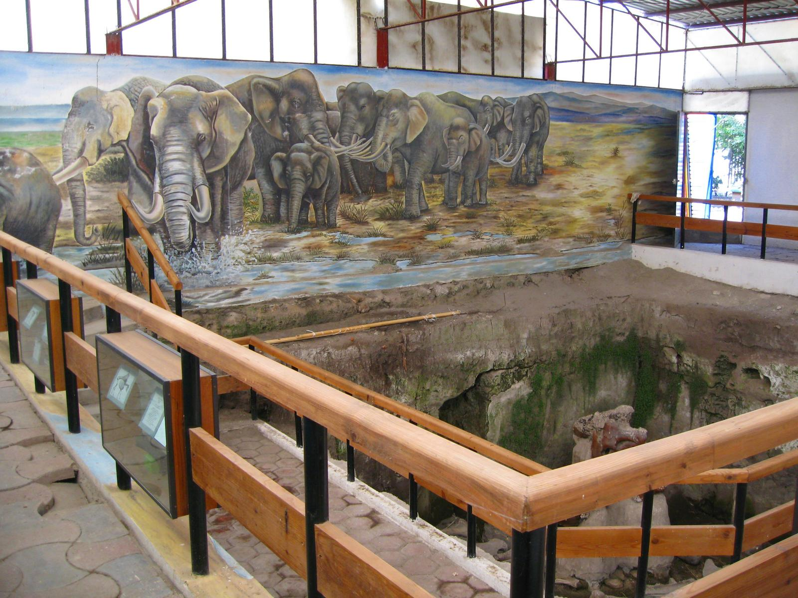 Paleontological Museum in Tocuila, Texcoco, México State